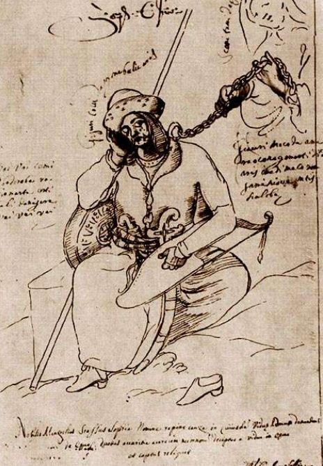 Chained mingrelian (war prisoner? at a slave market? not clear).